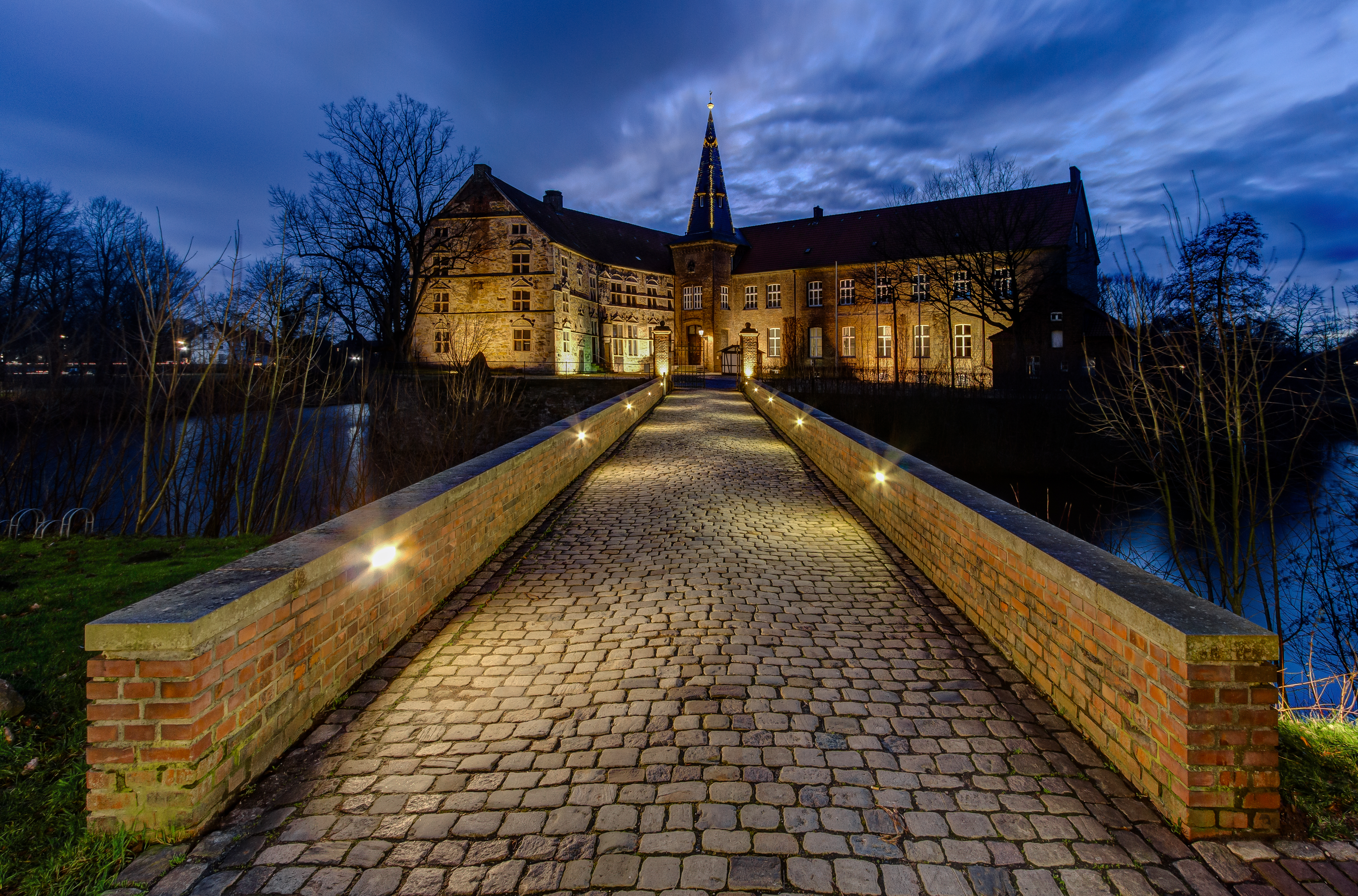 Lüdinghausen Castle, Lüdinghausen, North Rhine-Westphalia, Germany